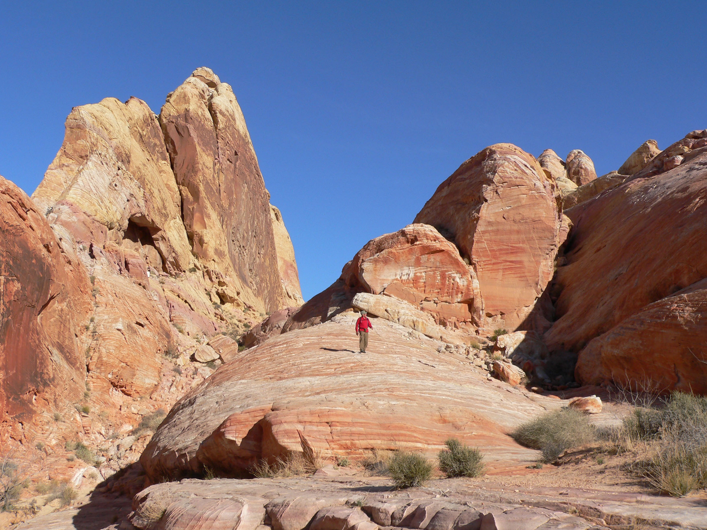 White Domes area, Valley of Fire, southern Nevada